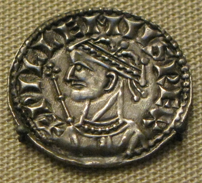 Silver coin of William the Conqueror (William I of England). Coin is property of the British Museum.